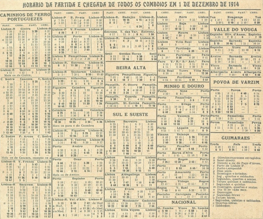 Timetable of all the passenger trains in Portugal, in 1st January 1902. This photograph was originally published in the Gazeta dos Caminhos de Ferro No. 647, of the 1st December 1914, and scanned by the Hemeroteca Municipal de Lisboa.